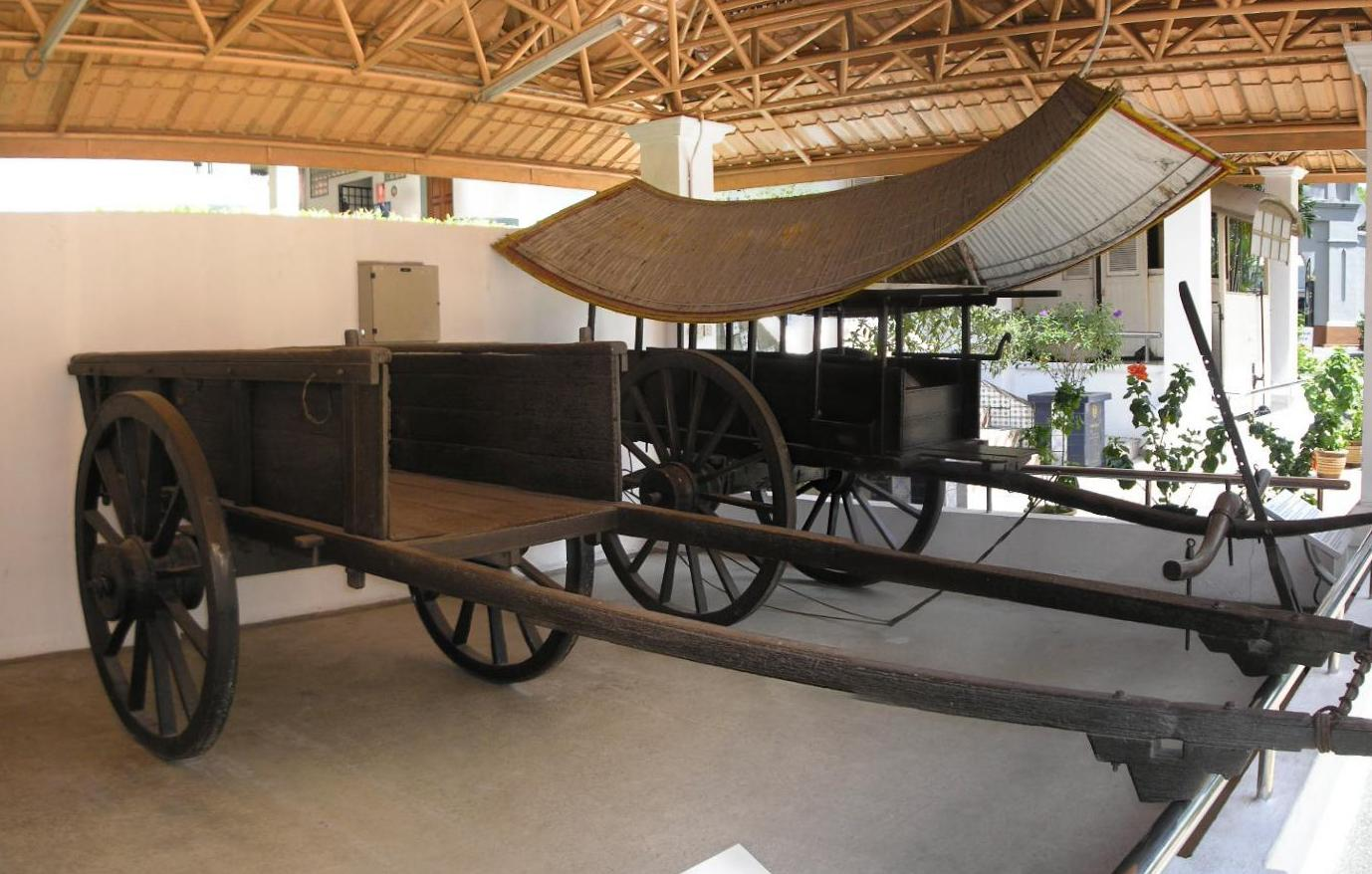 Carts at the National Museum in Kuala Lumpur. left side: Johor Horse Cart (Kereta Kudur Johor). The horse cart was originally used by the Chinese community in the town of Maharani, Johor in the 1900's. Its owner and family members used it primarily for their daily activities and recreation. The horse cart was eventually turned into a means of public transportation. A pony drew the cart and passengers were charged RM 0.05 for every 1.6 km. The horse cart was finally drawn as it was deemed unsuitable and inefficient with the advent of modern transportation. right side: Melaka Bullock Cart (Kereta Lembu Melaka). The traditional bullock cart is an accepted symbol of Melaka and is very much a part of the state's heritage. It has been around since the Melaka Sultanate of the 15th century CE, believed to have been introduced to the state by traders from India. In days of old, the cart was usually loaded in the evening and the journey began at dawn on the next day. A pair of healthy bullocks would be able to pull a full cart for a distance of eight kilometers in an hour and half. In present times however, the use of bullock carts in towns is discouraged, mainly to avoid traffic congestion. Many have converted the old carts into items of household furniture. The best time to view these carts is during cultural festivals when long rows of decorated carts can be seen driving through Melaka town heading for the festival grounds.